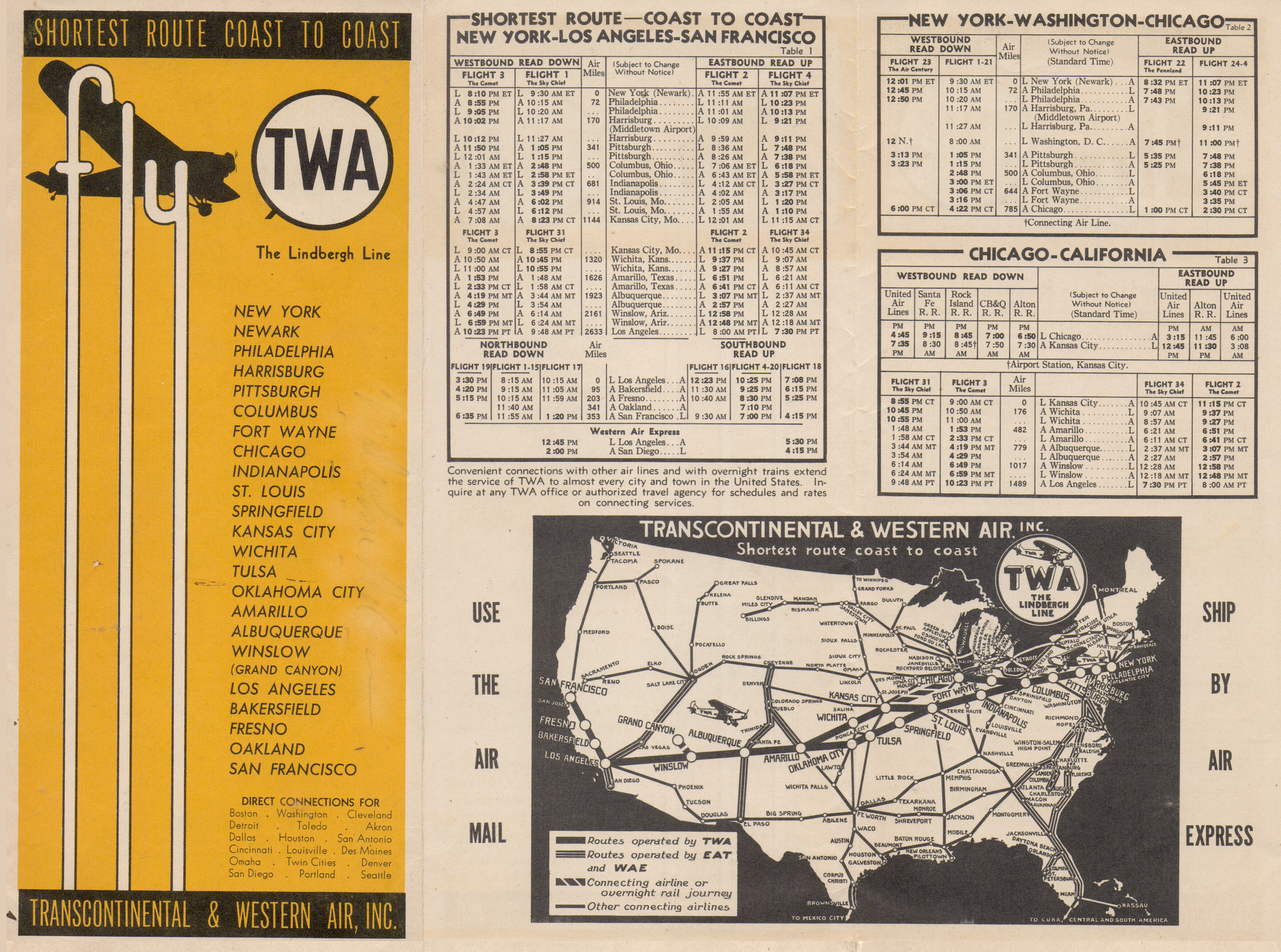 Transcontinental & Western Air (TWA) coast-to-coast routes and route map